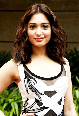 Tamannaah Bhatia snapped at First look launch of ‘Bahubali 2 The Conclusion’ at MAMI 18th Mumbai Film Festival on 22 October 2016